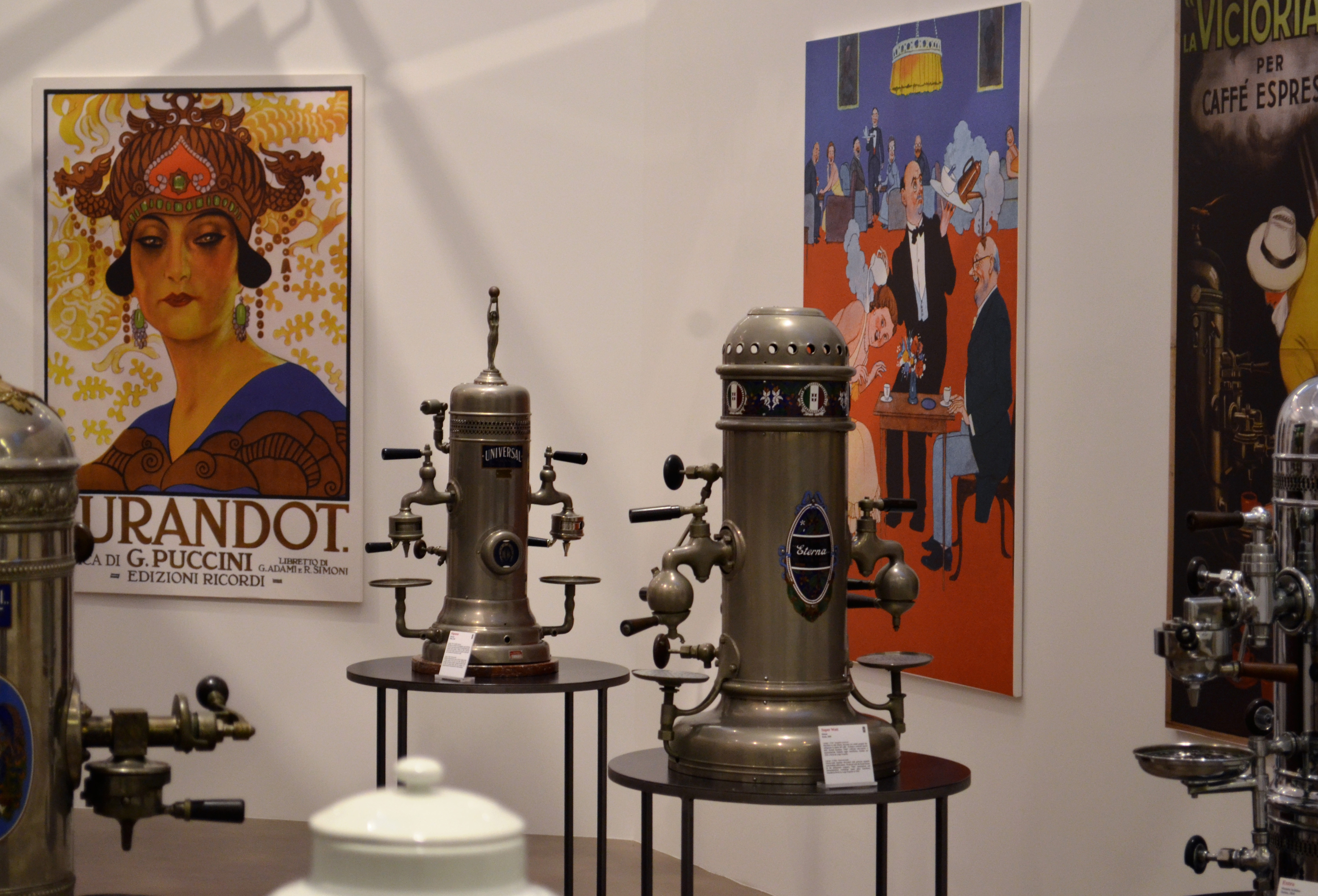 Historical Espresso machines on display in the Coffee Machines Museum (MUMAC), Binasco, Province of Milan - Italy